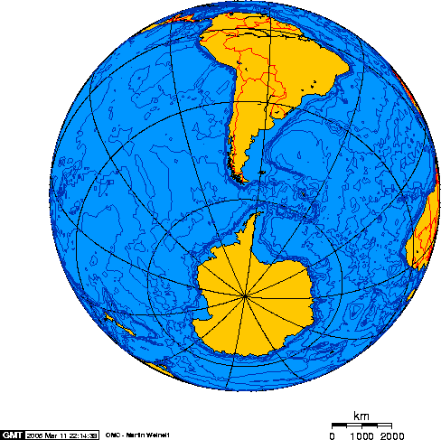 Drake Passage - Orthographic projection.